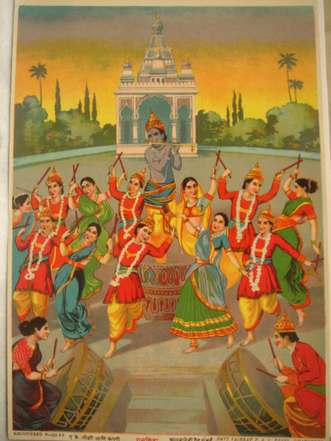 "Ras-krida": the gopis and gopas dance what looks like a bhangra (bazaar art, c.1910's)Source: ebay, Jan. 2007